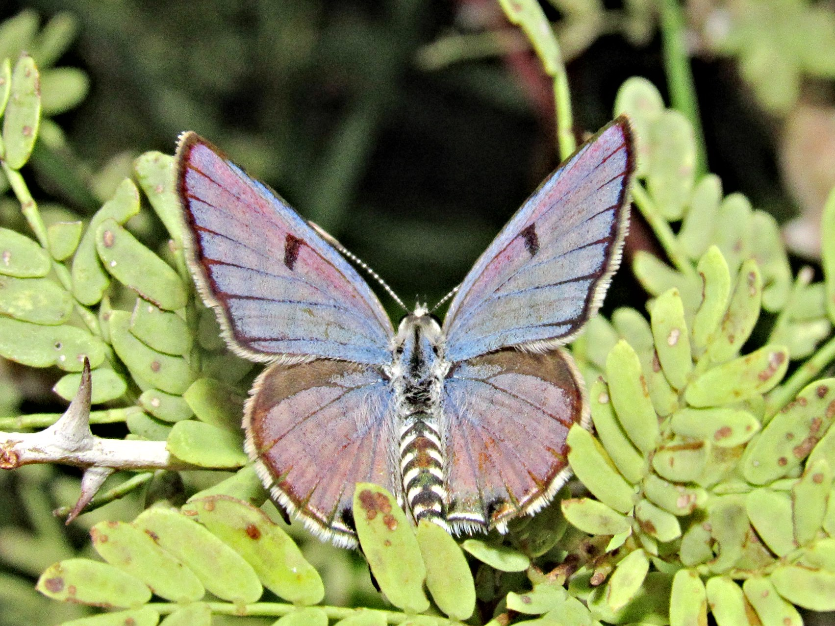 Common Name : Striped Pierrot Butterfly Scientific name : Tarucus nara (Kollar,1848) Synonyms : Tarucus extricatus (Butler,1886) Family : Lycaenidae Description : Adult male of Striped Pierrot butterfly Showing Upperwings.